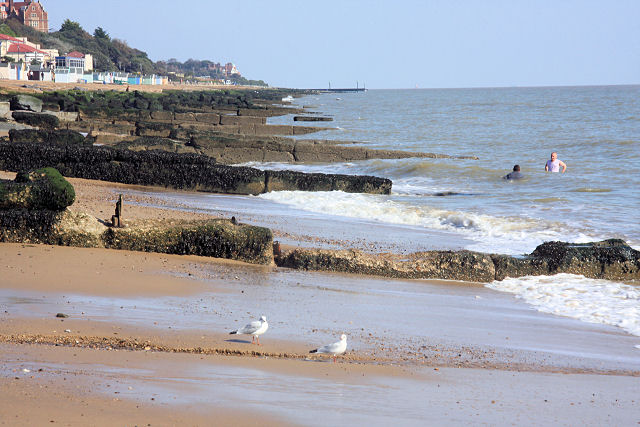 Concrete groynes at Felixstowe Two hardy souls are braving the late-September sea, whilst a pair of seagulls watch in amazement. The concrete groynes are badly damaged and have little effect in limiting the southward drift of sand and gravel.